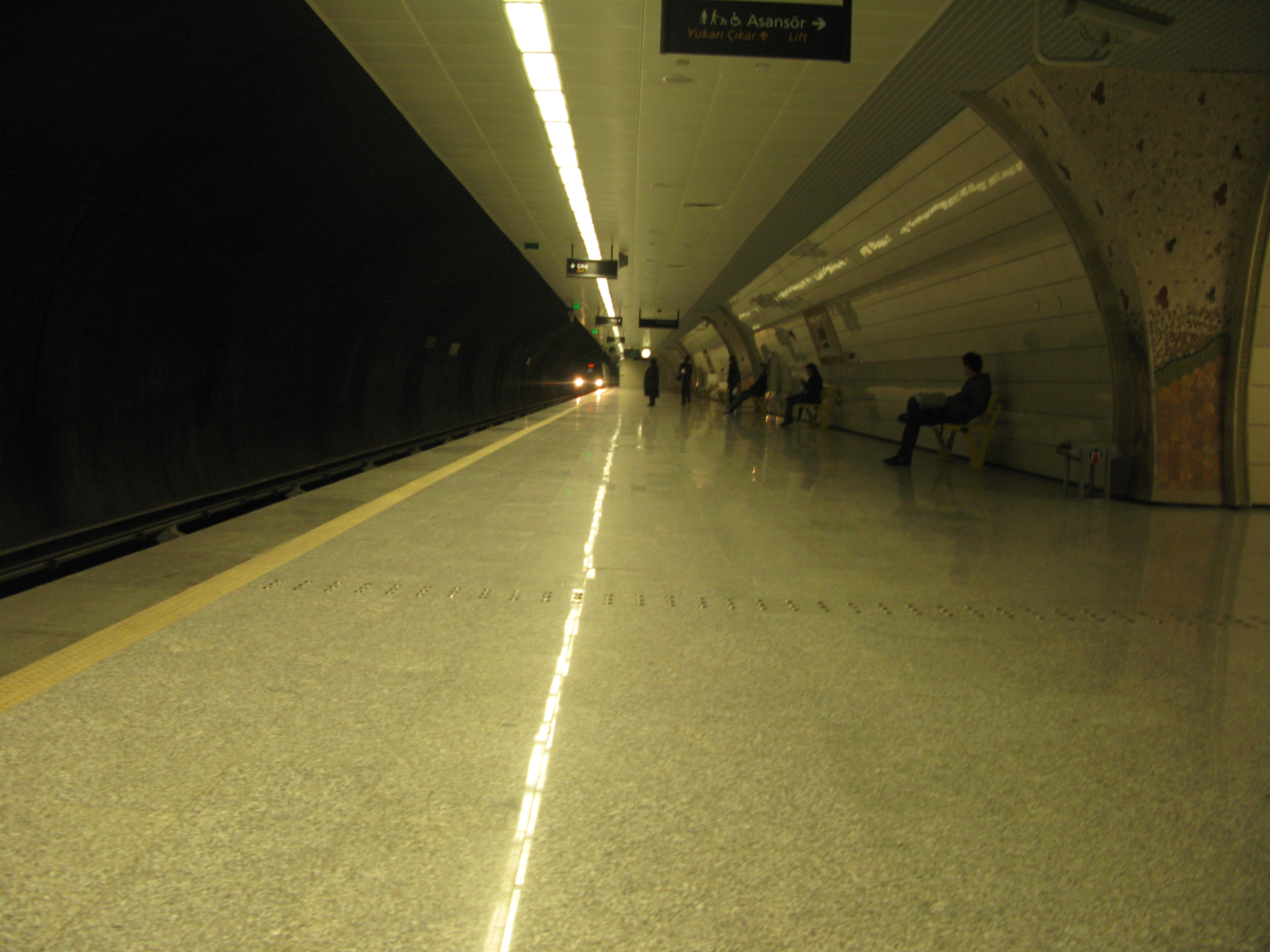 4.Levent Subway Station.